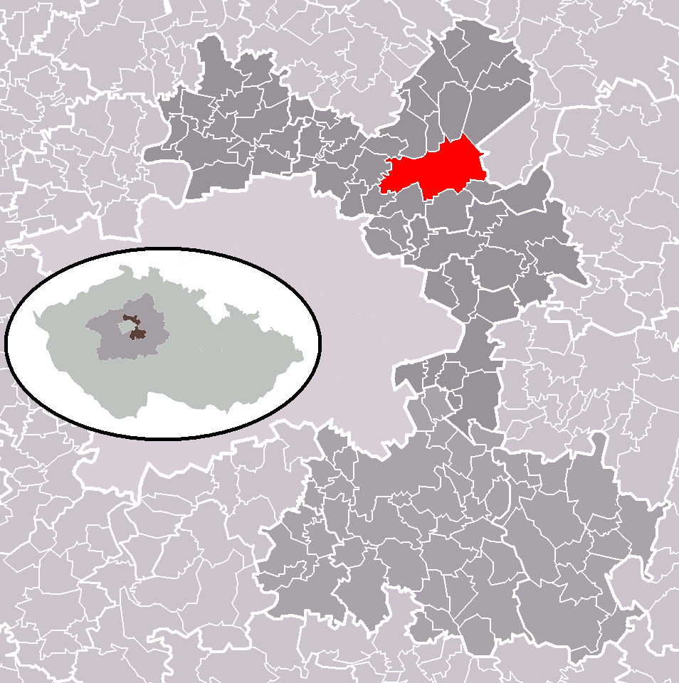 Location of Brandýs nad Labem-Stará Boleslav town within Prague-East District and administrative area of Brandýs nad Labem-Stará Boleslav as a Municipality with Extended Competence.